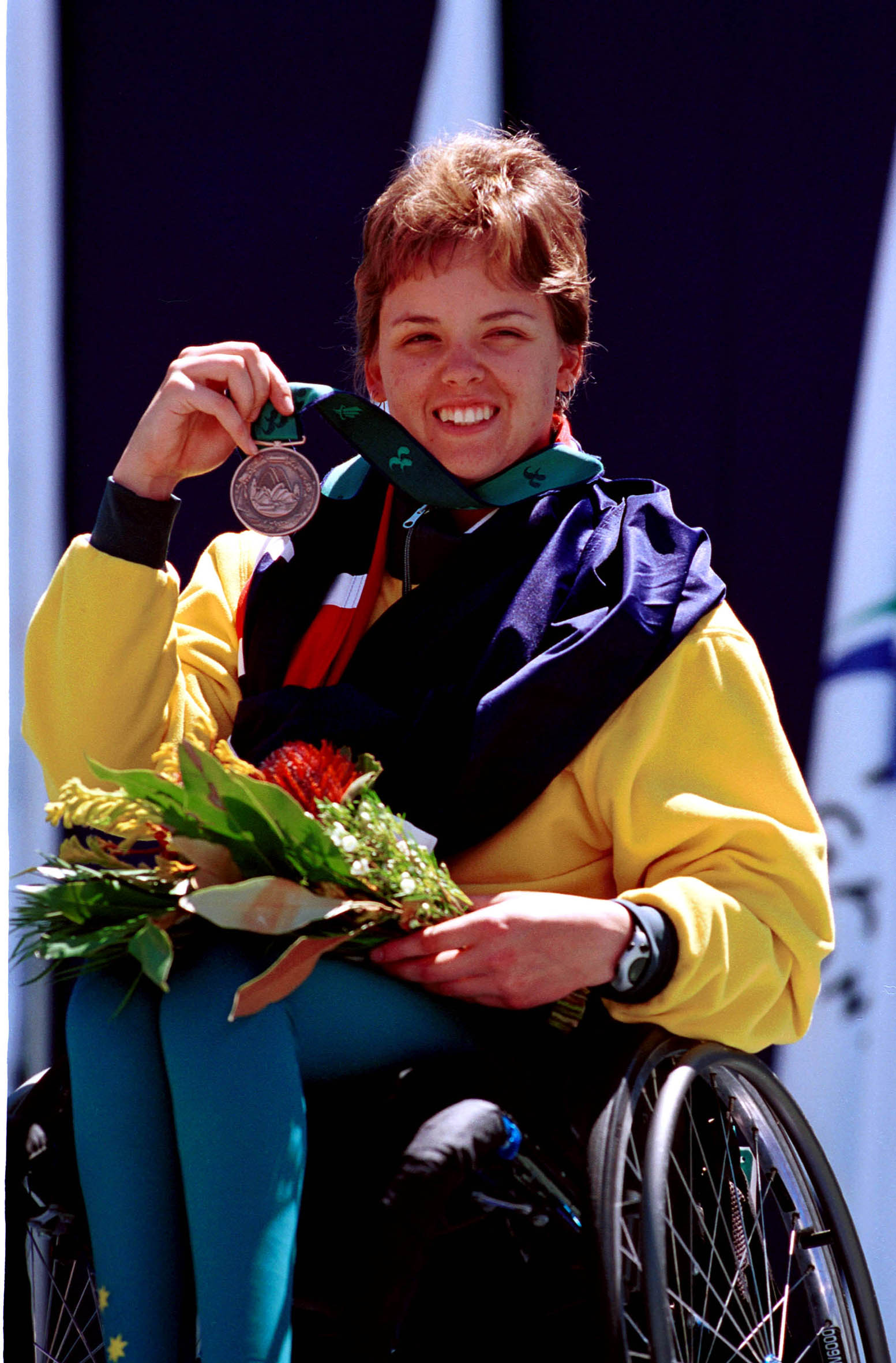 Australian wheelchair racer Rebecca Feldman on the medal podium with the bronze medal that she won in the 200 m T34, 2000 Sydney Paralympic Games, Day 07